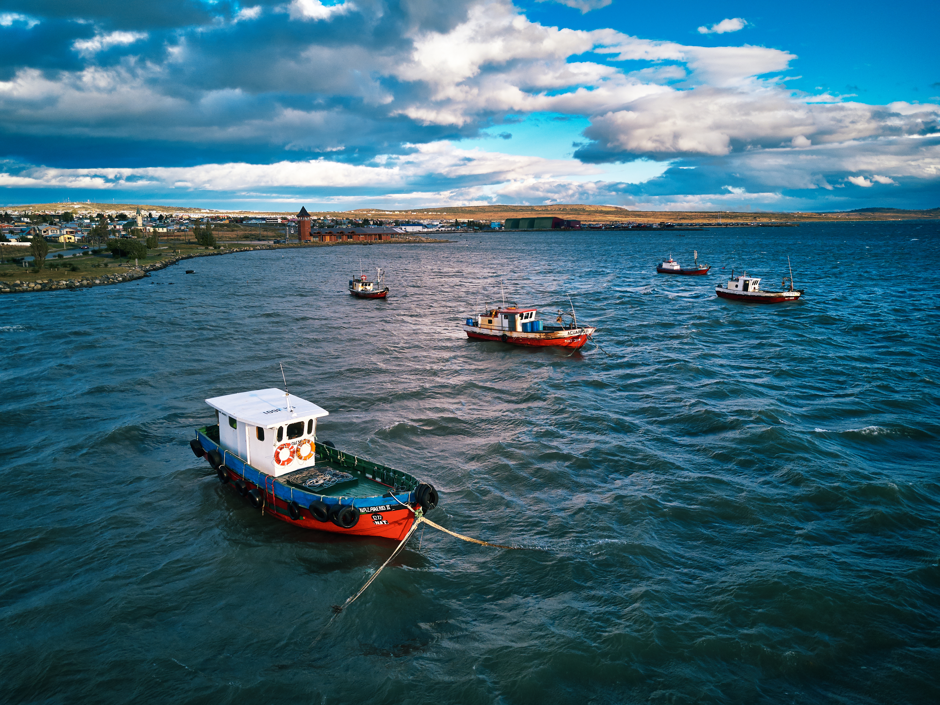 Boats of Puerto Natales